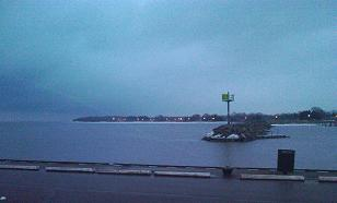 Chadwick Bay as seen from Dunkirk City Pier on the evening of 2010-01-19. Chautauqua County, New York.